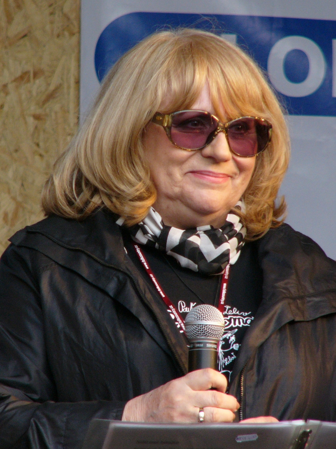 Czech vocalist Naďa Urbánková